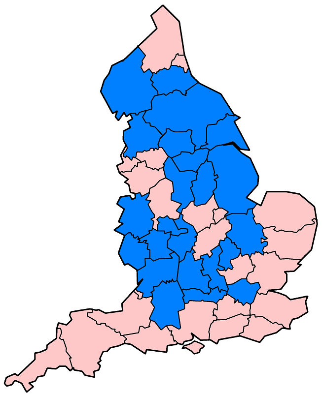 Created by me 2007-08-10. Uploaded by me 2007-09-10. This image indicates in blue the English non-administrative counties (1997 definition) affected by flooding on/by July 24th 2007.Every effort has been made to reduce error, and I apologise for any errors/omissions. Some areas with only minor damage have been omitted. Citations for the affected areas can be found here under "Affected areas in England". The light blue colour was chosen because of its natural association with water, and pink as its opposite on the colour wheel. No other meaning is implied or should be inferred.